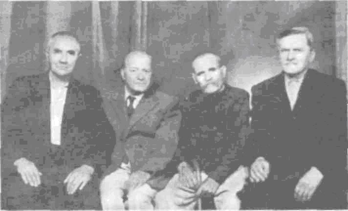 bulgarian revolutionary/ies